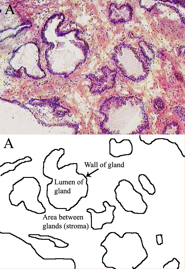 Histological section of prostate gland.